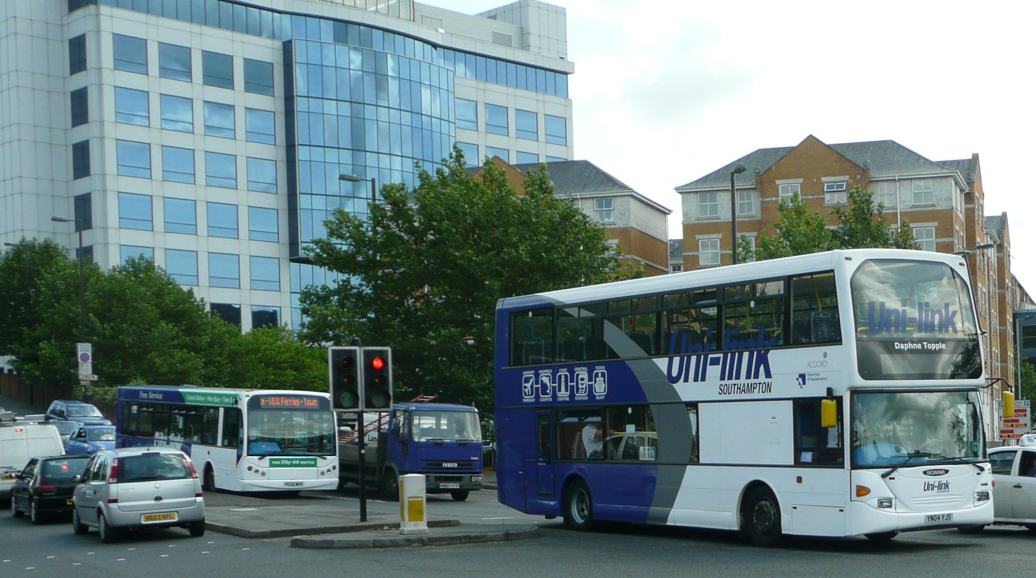 Enterprise 32 (YN04 YJS), a Scania OmniDekka heading down the hill to Southampton Central Station on Uni-link route U1. Bus 51 is behind.